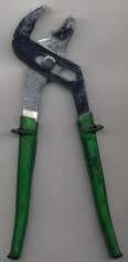 Waterpump pliers.